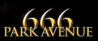 Logo for the US television show 666 Park Avenue